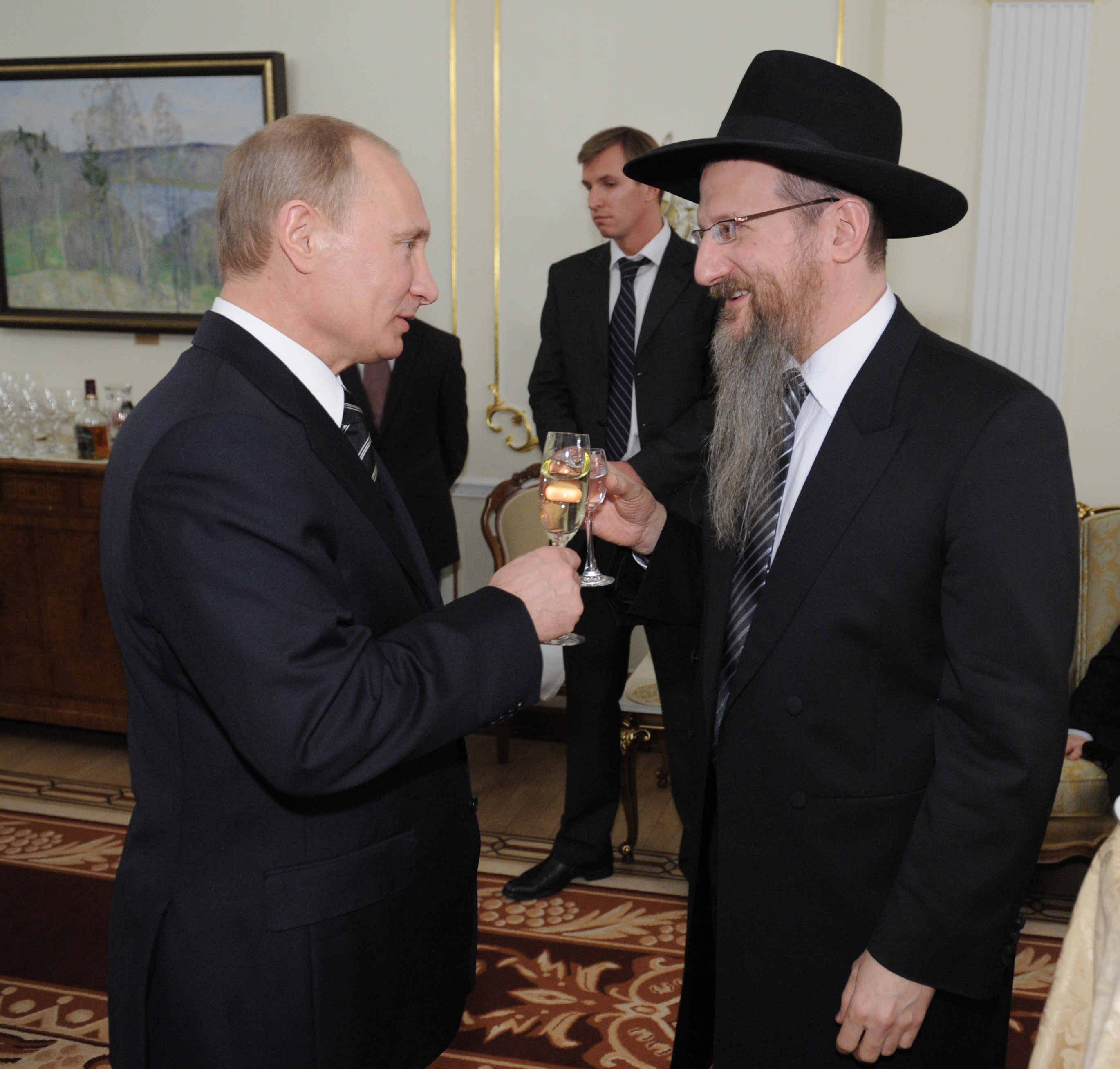 Vladimir Putin and Berl Lazar, Chief Rabbi of Russia